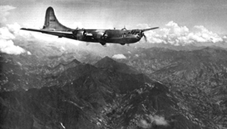 40th Bombardment Group B-29 crossing the Himalaya Mountains "Hump" flying from India to China